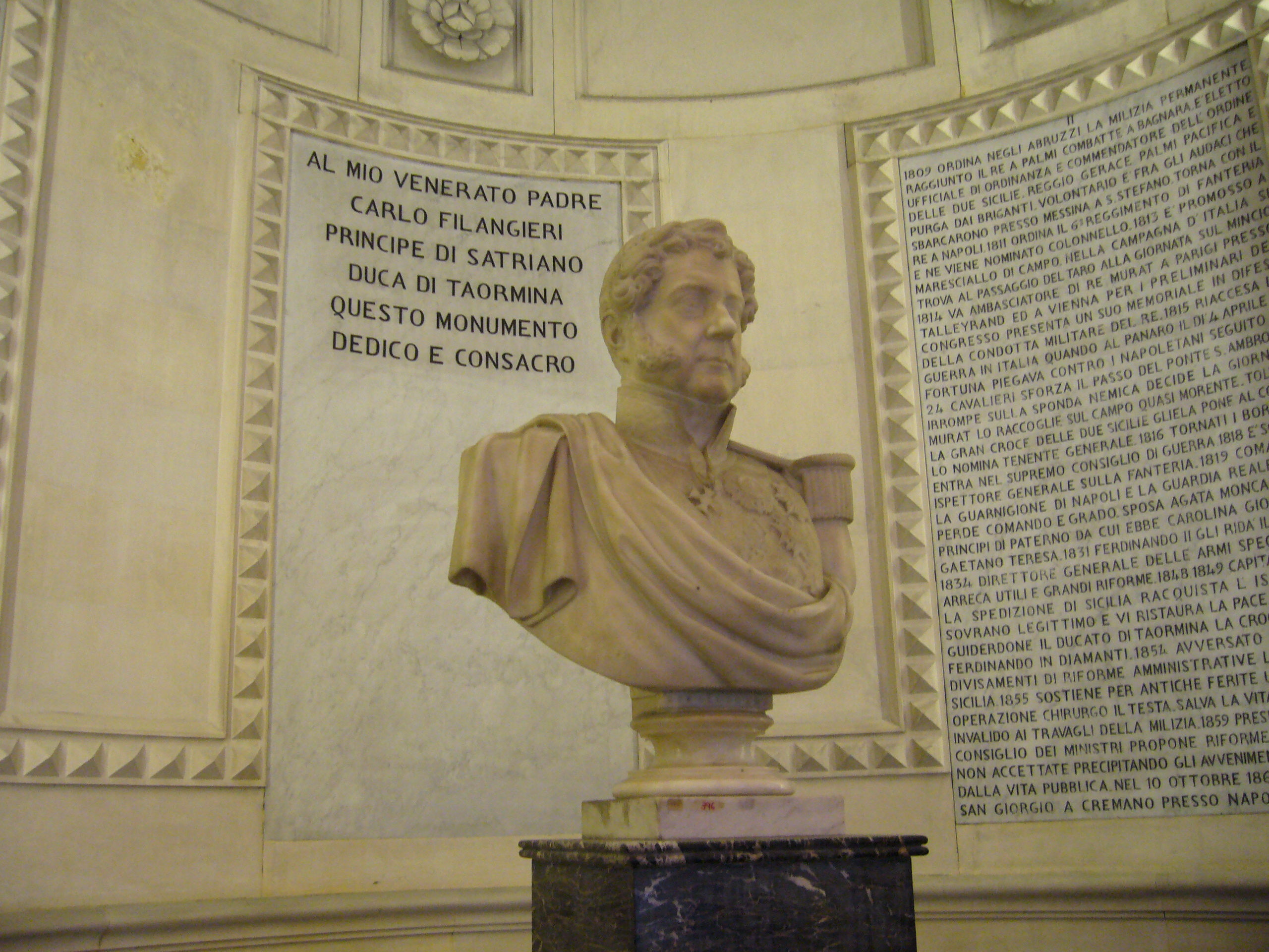 Carlo Filangieri (1784-1867). Monument on display at Palazzo Como (Naples), the Museum Filangieri.